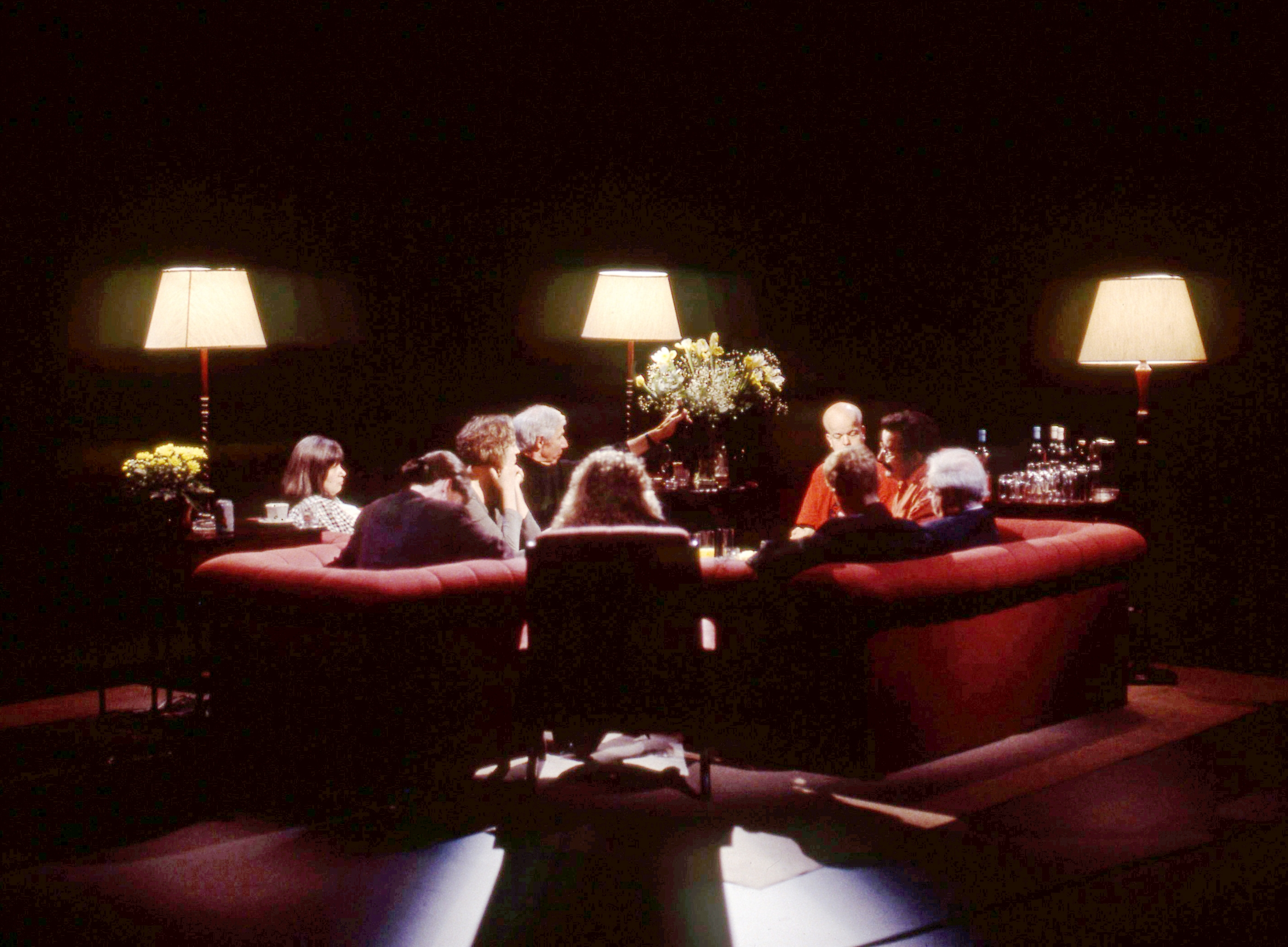 A special edition of TV discussion programme After Dark, broadcast on Channel 4 on 30 May 1994